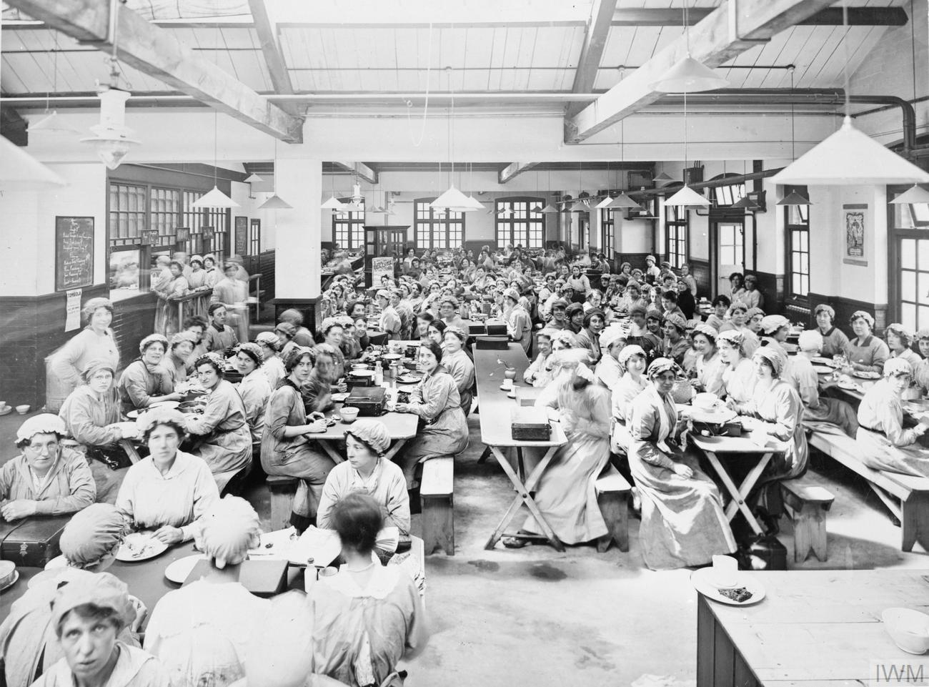 THE WOMEN'S WORK IN THE WAR PRODUCTION, 1914-1918 Women, likely factory workers, sitting to have tea on a break.